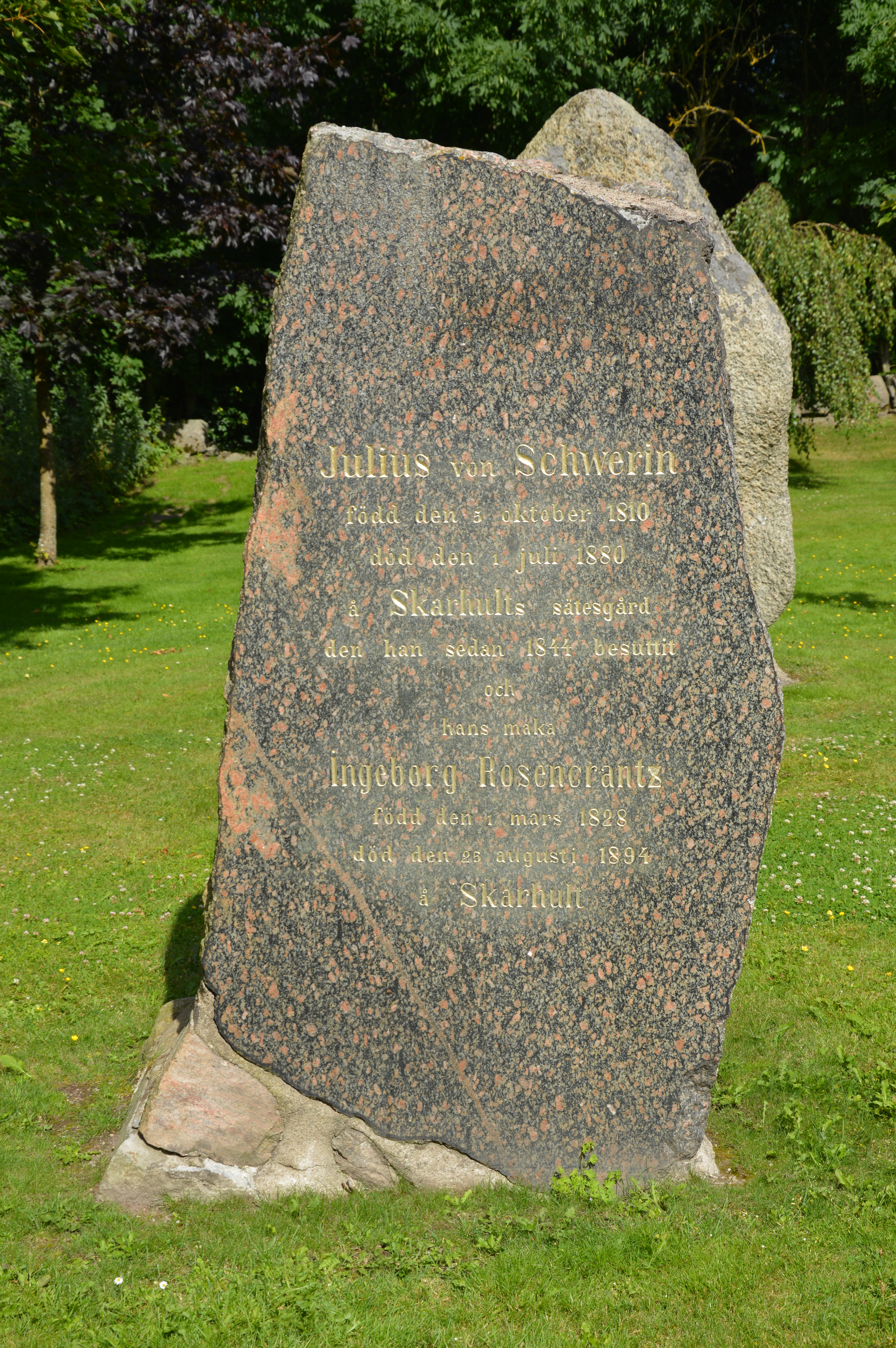 Swedish military and noble Jules von Schwerin's (1810-1880) grave.